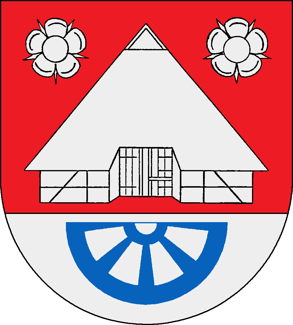 Coat of arms of the municipality Klein Offenseth-Sparrieshoop in Schleswig-Holstein, Germany.